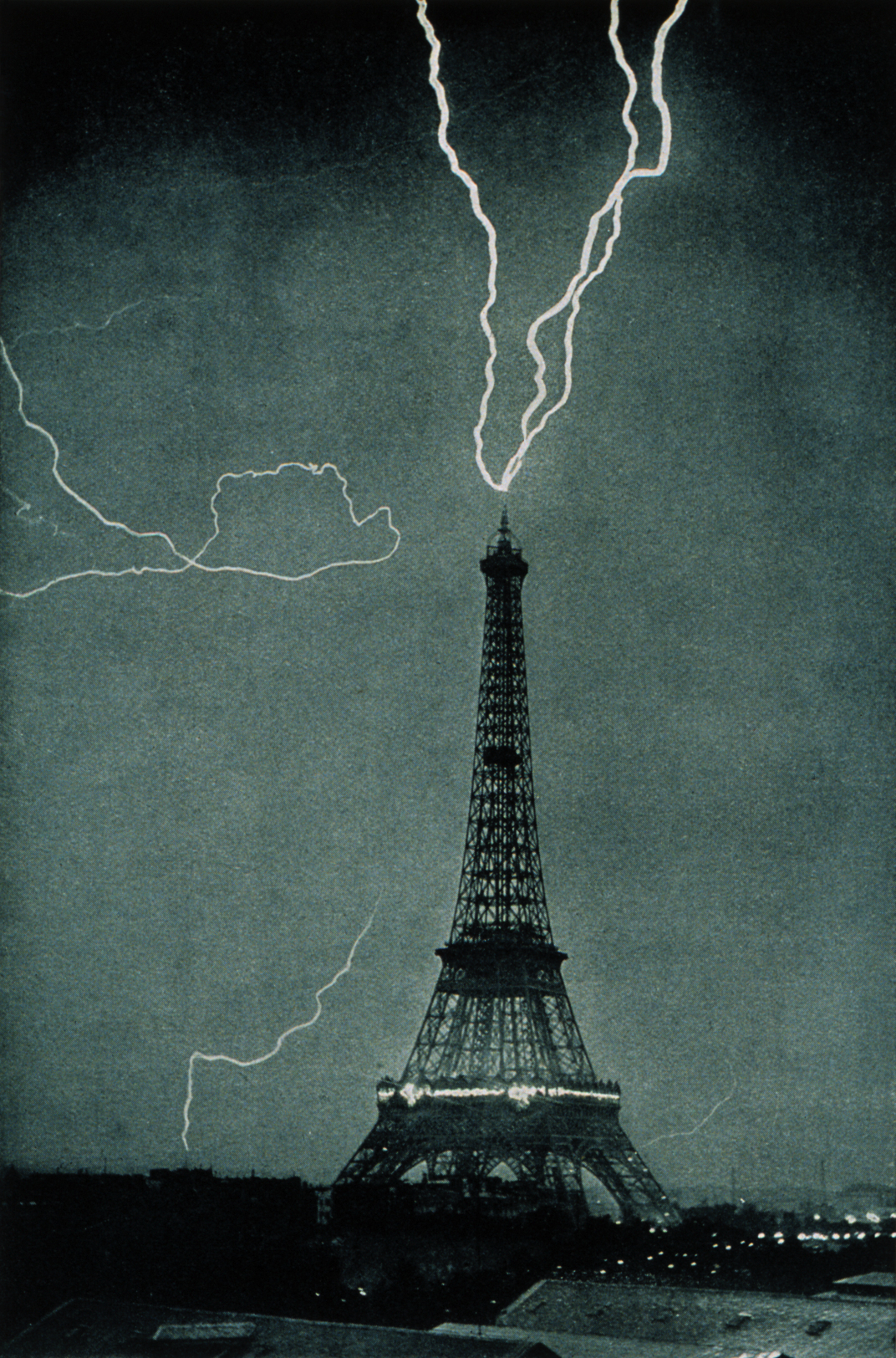 Lightning striking the Eiffel Tower, June 3, 1902, at 9:20 P.M. This is one of the earliest photographs of lightning in an urban setting In:"Thunder and Lightning", Camille Flammarion, translated by Walter Mostyn Published in 1906.